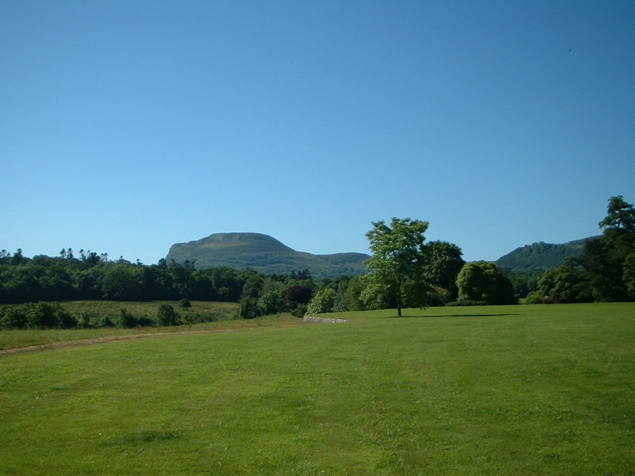 Benaughlin Mountain, a batholithic foothill of Cuilcagh Mountain in the Florence Court demesne near Enniskillen, Co.Fermanagh, Northern Ireland. Photographed by Andrew Humphreys, July 17 2006.